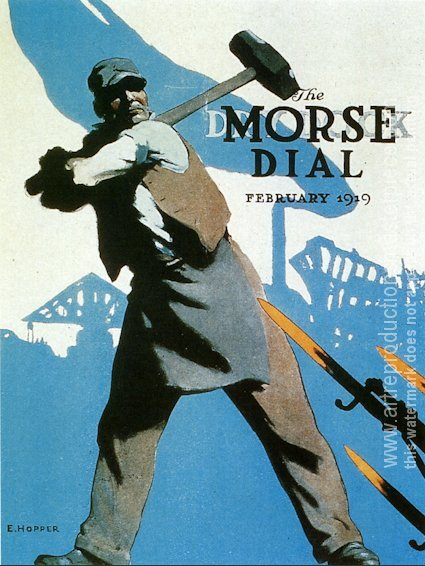 Edward Hopper's prizewinning World War I patriotic poster "Smash The Hun", reproduced here (without accompanying caption) on the front cover of the February 1919 edition of The Dry Dock Dial, the internal house organ of Brooklyn, New York's Morse Dry Dock and Repair Company, where Hopper worked as an illustrator.